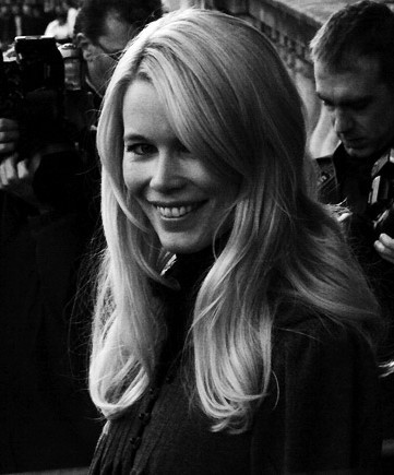 Claudia Schiffer in London, U.K.